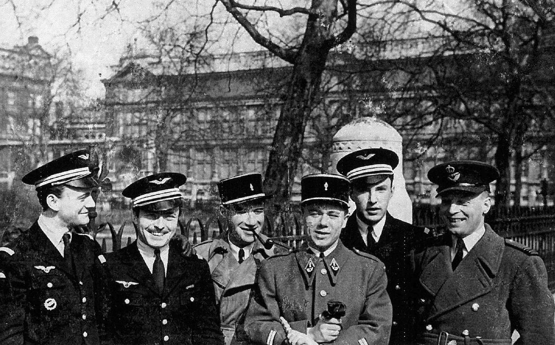 Intelligence officers during winter 1942, London. At the right side BCRA Bruno Larat and SOE Forest Yeo-Thomas.